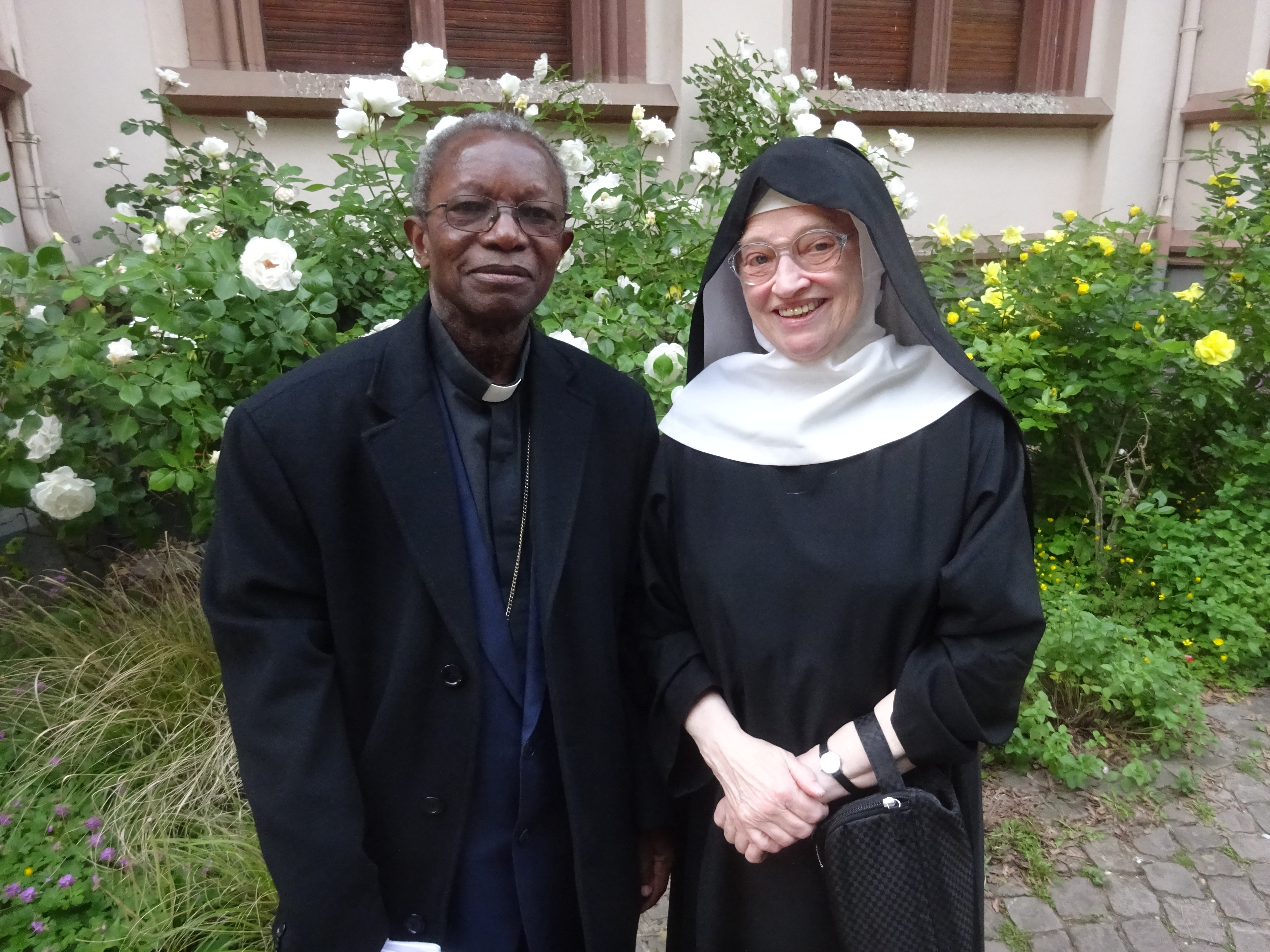 Bishop Ambroise Ambroise Ouédraogo from Maradi, Niger, as a guest in St. Bonifatius, Wiesbaden, for the 20th anniversary of africa action in Wiesbaden, with Sister Emanuela from Eibingen Abbey, 18 May 2019